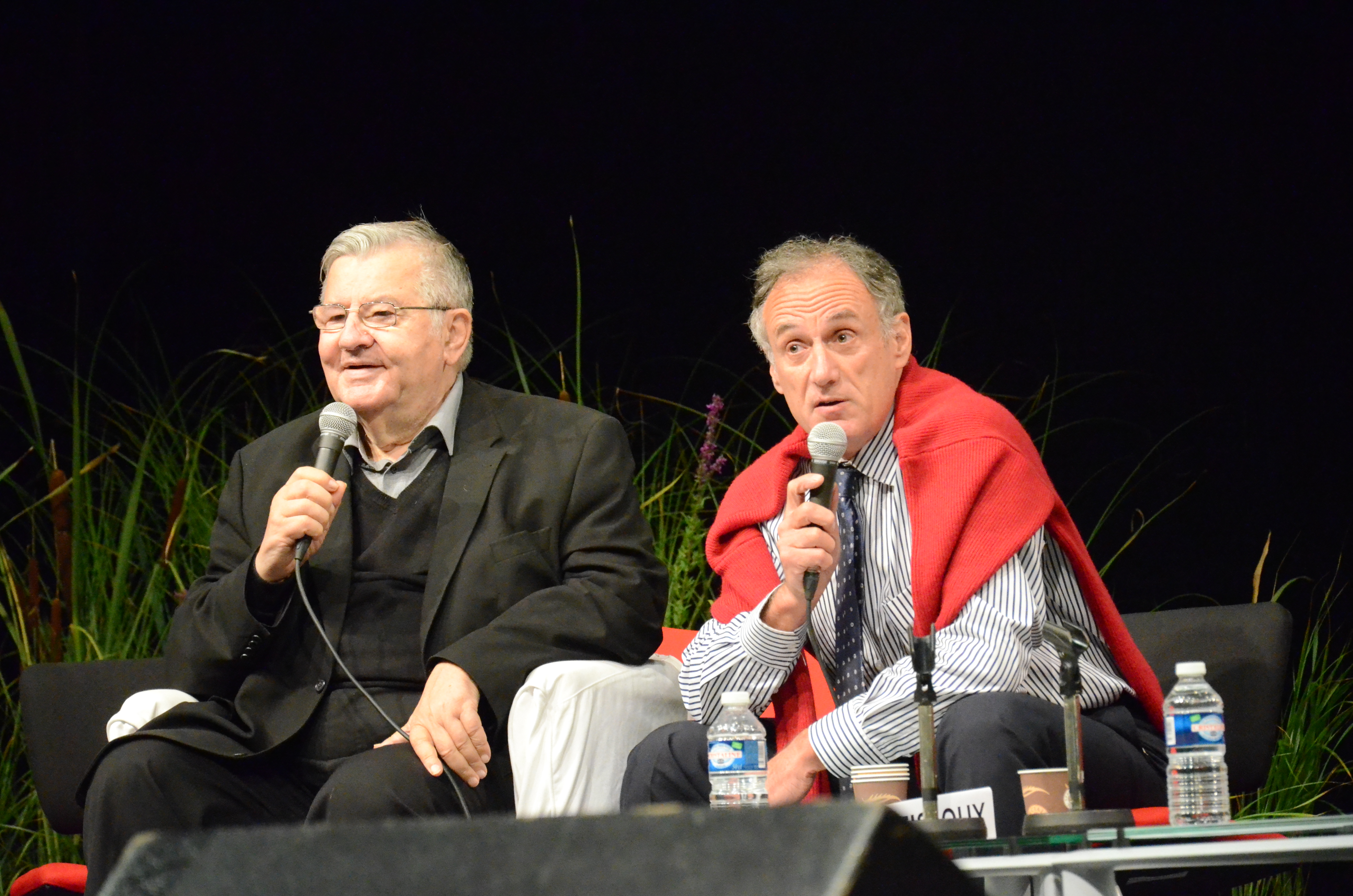 The french Botanist Jean-Marie Pelt with Denis Cheissoux (french Journalist, France-Inter) during a round table of the National Conference of Biodiversity, in Grande-Synthe (Northern France) in 2012.